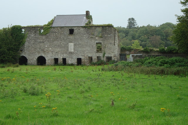 Back of Drumboe Castle. This view is from a riverside path; the castle front can be seen at 960705